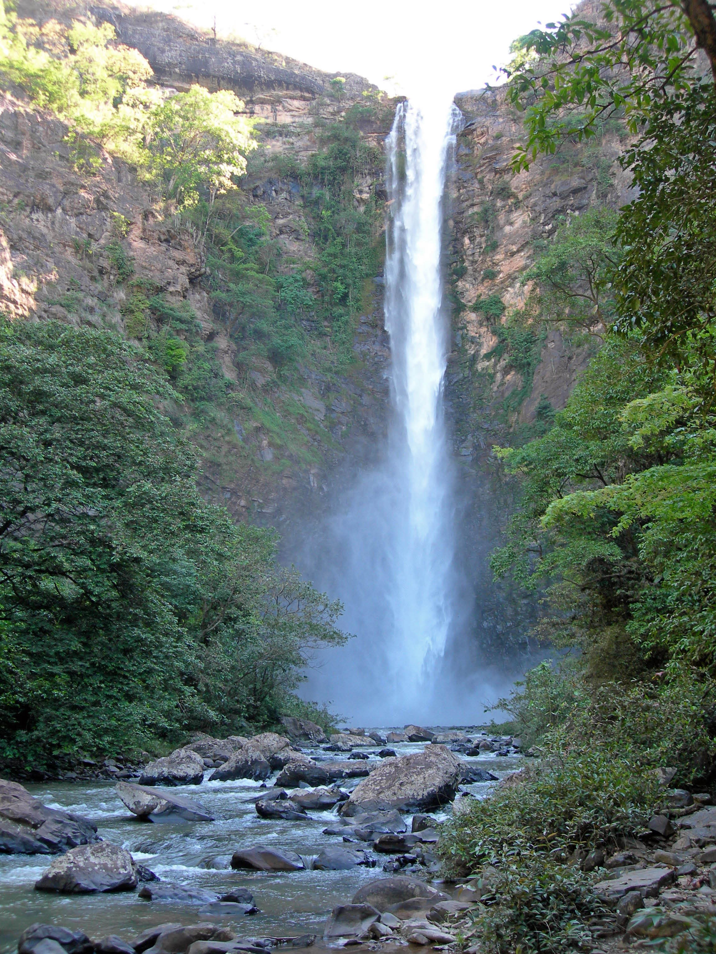 A waterfall in the city of Unaí, Brazil. "Cachoeira da Jiboia"